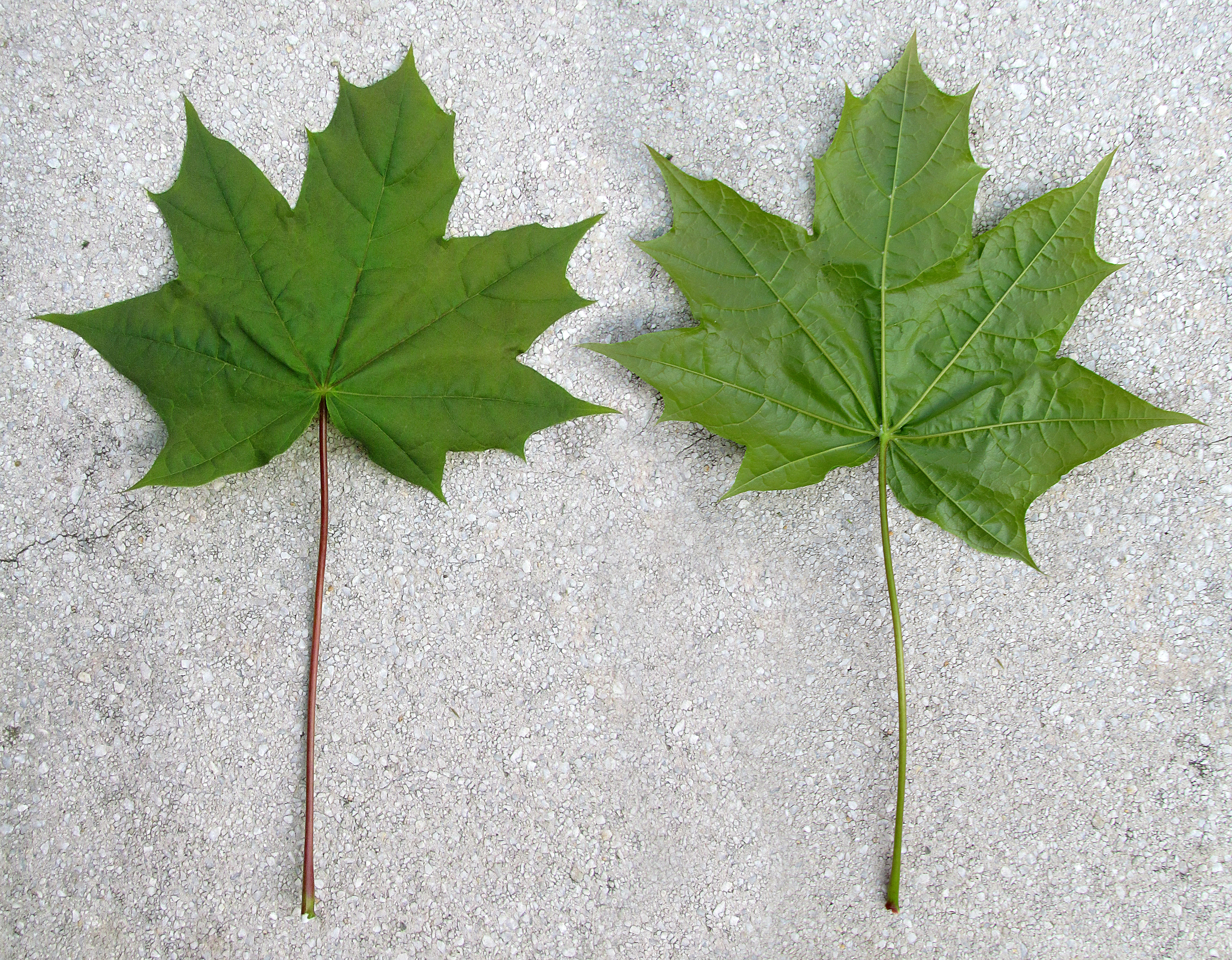 Acer platanoides leaf